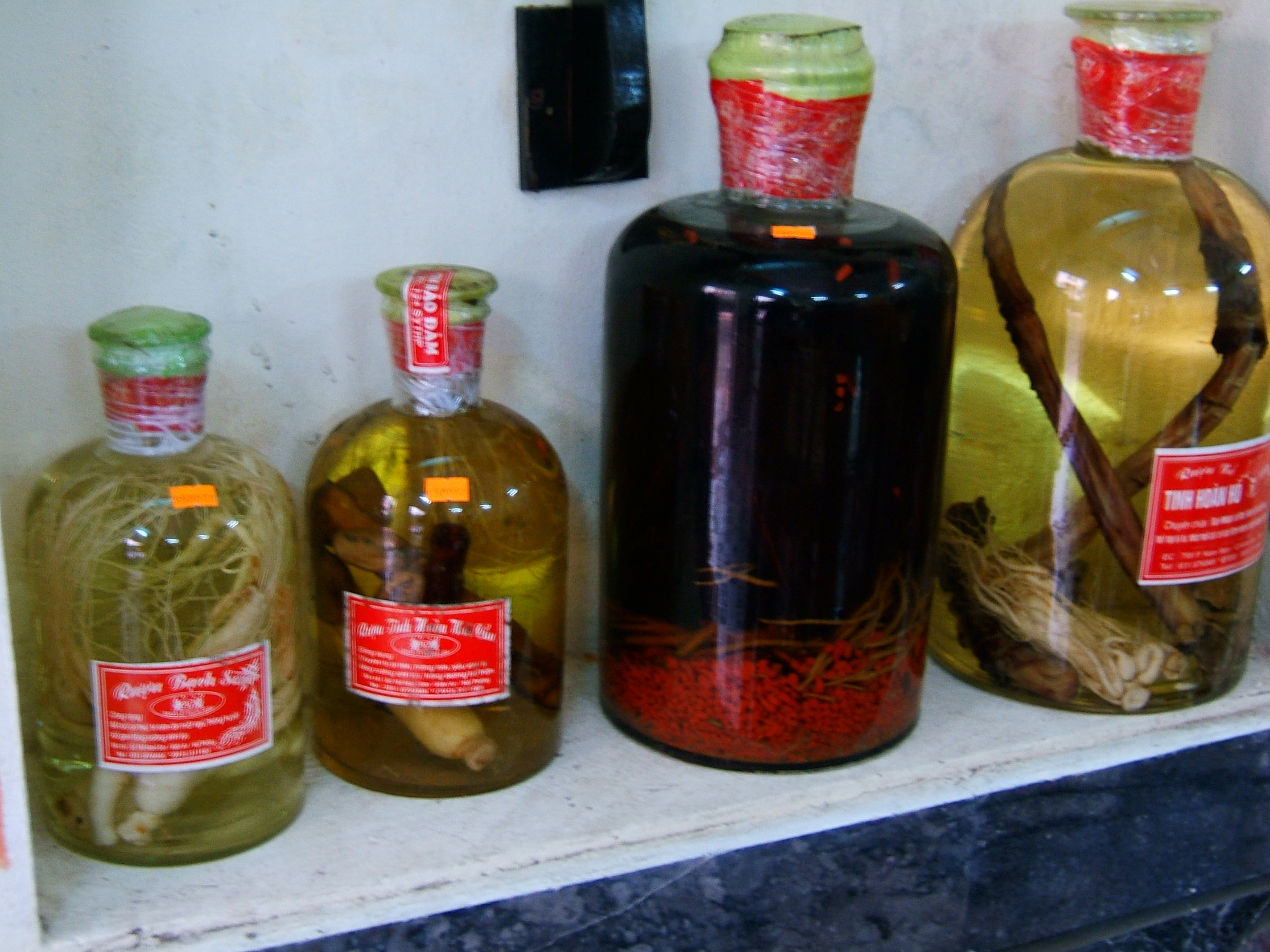 Ruou thuoc, copied from , the copyrights holder of of this image have been release to public domain by a user.